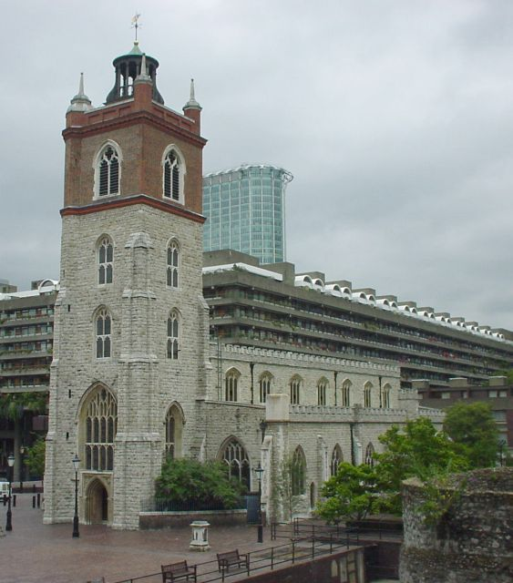 St Giles-without-Cripplegate Photo taken by lonpicman